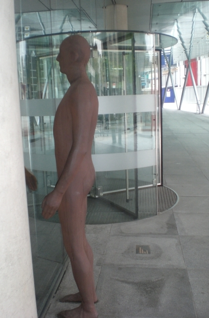 Reflection, 350 Euston Road, London For more information on this sculpture "Reflection" by Antony Gormley